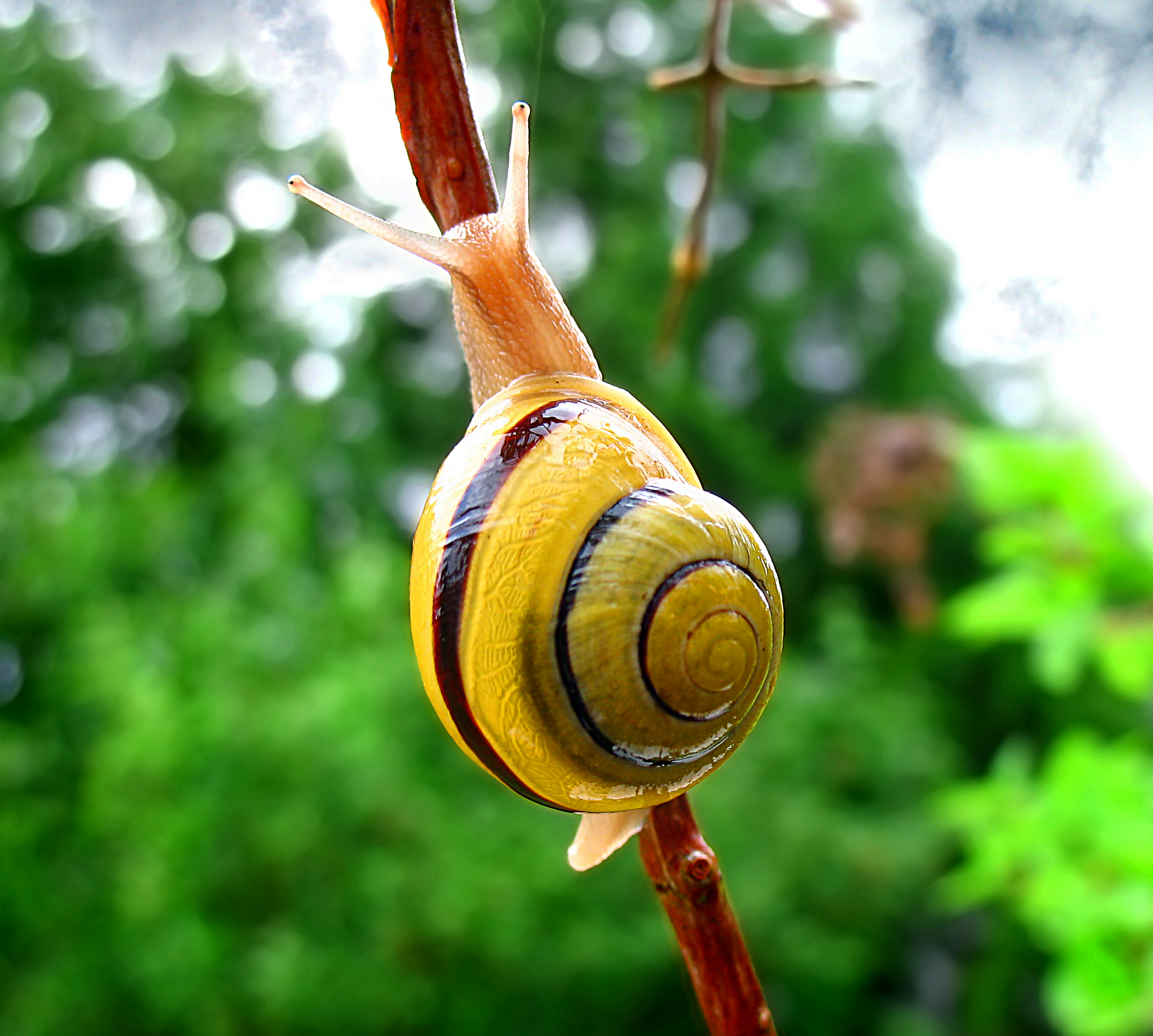 A yellow snail, species Cepaea nemoralis